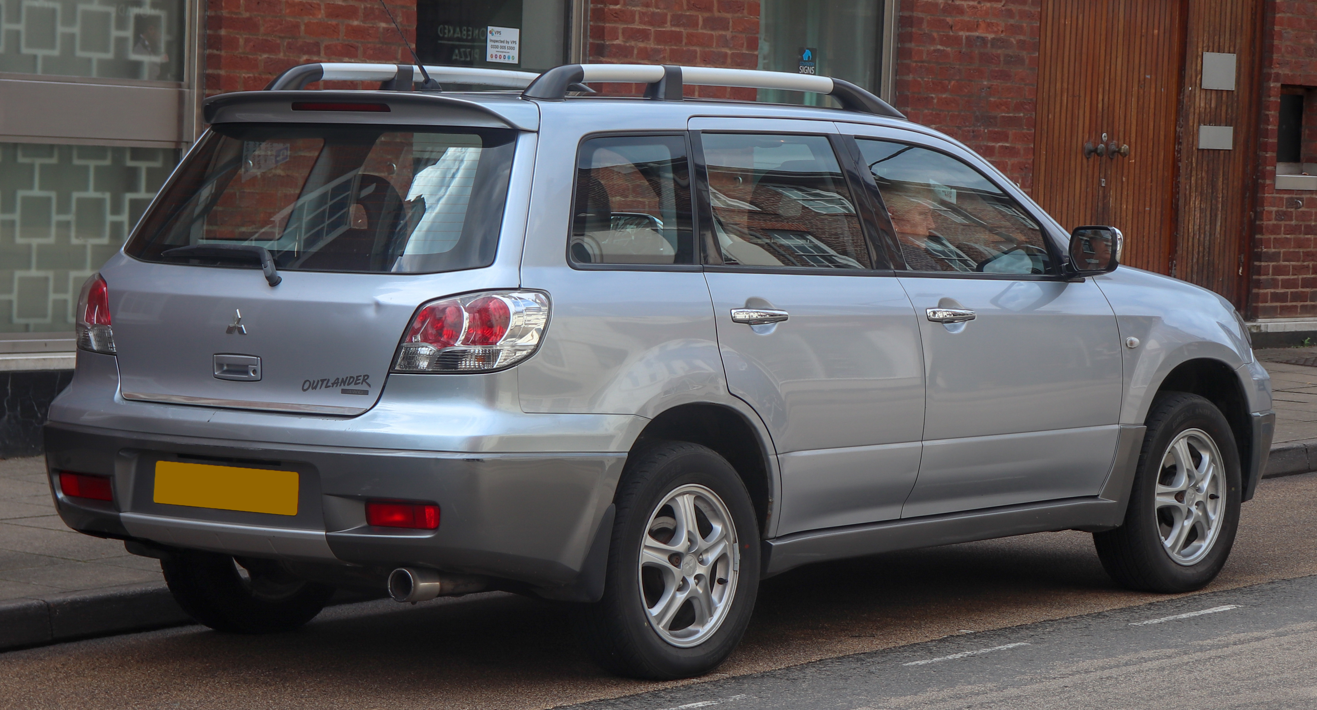 2003 Mitsubishi Outlander Sport SE Automatic 2.4 Rear Taken in Warwick